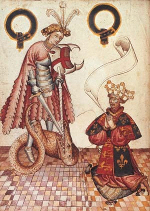 An image of William Bruges, Garter King of Arms, in a manuscript illumination from around 1430. Bruges is shown kneeling before St George, the patron saint of England.